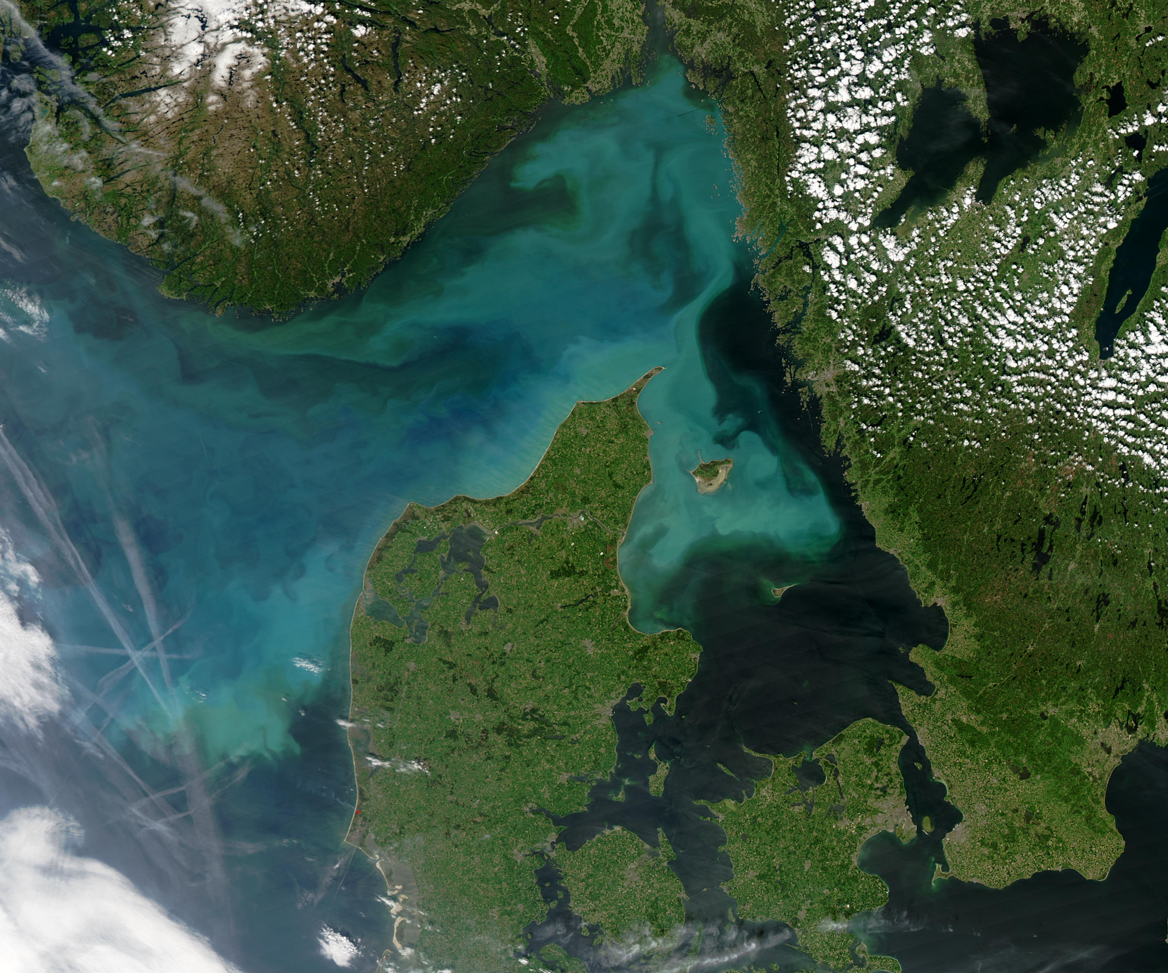 A large phytoplankton bloom fills Skagarrak, a gulf of the North Sea north of Denmark’s Jutland peninsula, and spills into the North Sea on the west and Kattegat on the east. Phytoplankton are microscopic plants that can form large blooms near the ocean’s surface. In satellite imagery, the blooms are visible as bright blue and green swirls in ocean water. This image was captured by the Moderate Resolution Imaging Spectroradiometer (MODIS) on NASA’s Aqua satellite on June 1, 2004. Skagarrak’s inverted “v” is bordered by Norway, top left; Sweden, top right; and Denmark, lower center. Airplane contrails streak over the North Sea west of Denmark, and a thin plume of smoke is rising from a fire, marked with a red dot, in Jutland.